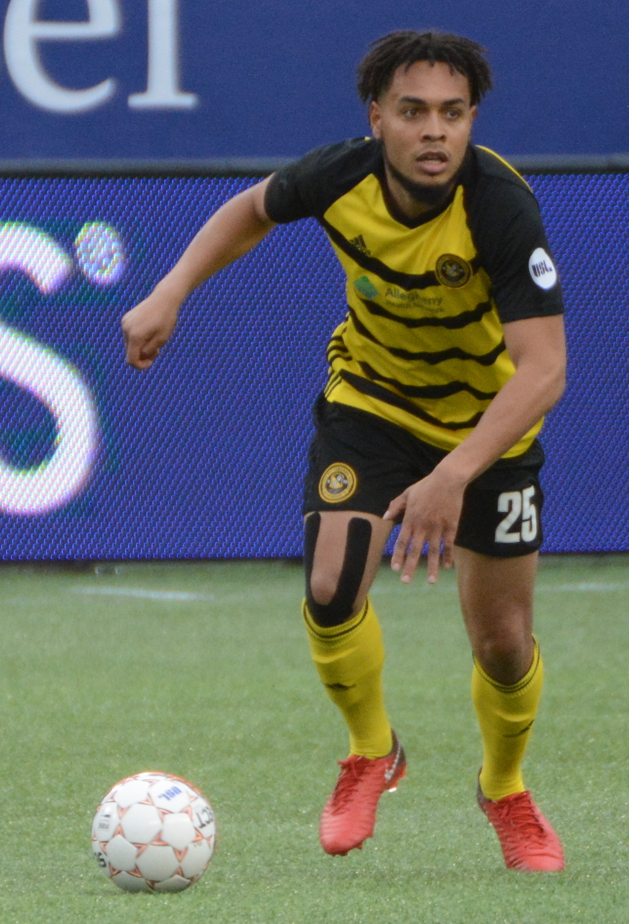 French footballer Thomas Vancaeyezeele, a midfielder for Pittsburgh Riverhounds SC, running with the ball during a USL regular season match between FC Cincinnati and Pittsburgh Riverhounds at Nippert Stadium in Cincinnati, USA on April 21, 2018.